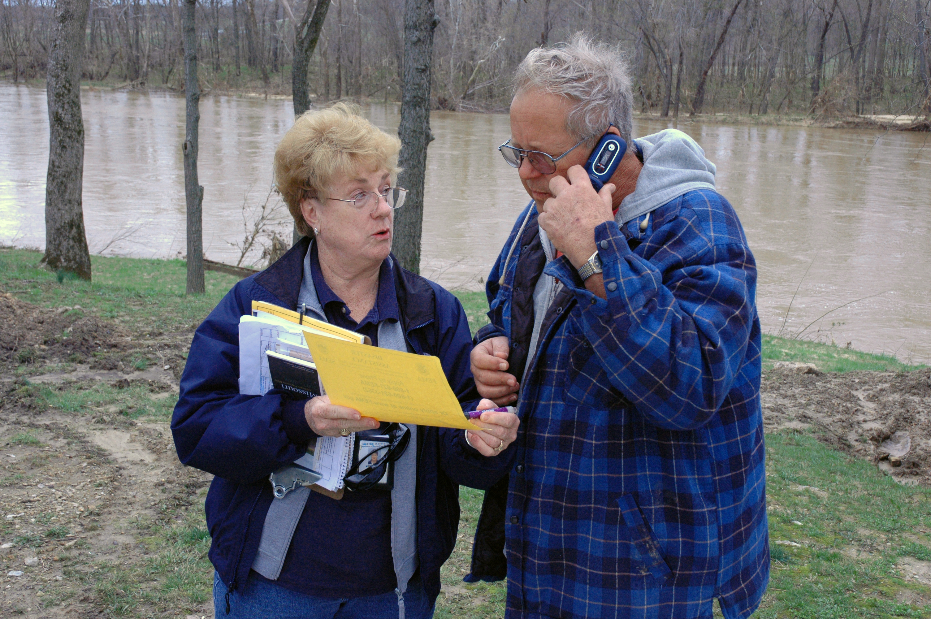 Robertsville, MO, April 11, 2008 -- John Bathe registered for state and federal assistance after Mary Peirson of Franklin County's Community Relations team explained assistance programs. The Meramec River, which flooded the area, is behind them. Michael Raphael/FEMA